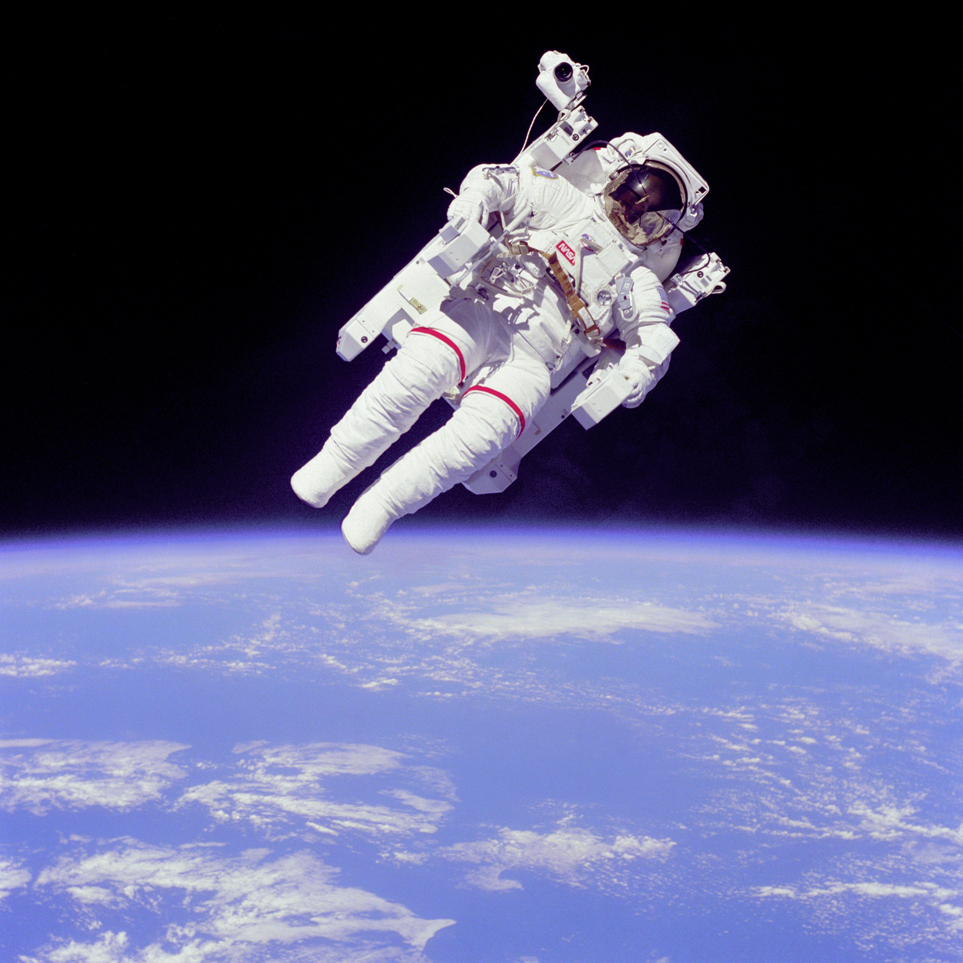 Mission: STS-41-B Film Type: 70 mm Title: Views of the extravehicular activity during STS 41-B Description: Astronaut Bruce McCandless II, mission specialist, participates in a extra-vehicular activity (EVA), a few meters away from the cabin of Space Shuttle Challenger. He is using a nitrogen-propelled hand-controlled Manned Maneuvering Unit (MMU). He is performing this EVA without being tethered to the shuttle. The picture shows a cloud view of the Earth in the background.